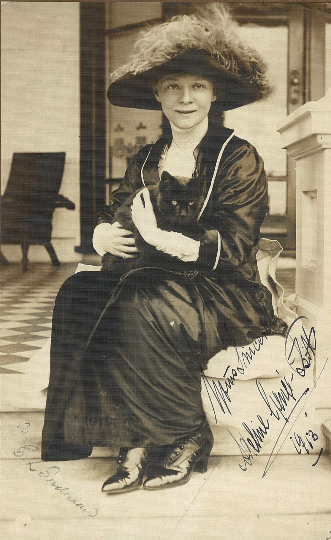 Adeline Genee was the most illustrious ballerina to have visited Australia until 1913. After her tour she retired, although she occasionally made charity appearances in England, where she lived until her death in 1970. Format: Photograph Notes: Find more detailed information about this photograph: .au/item/itemDetailPaged.aspx?itemID=422981 Search for more great images in the State Library's collections: .au/search/SimpleSearch.aspx From the collection of the State Library of New South Wales